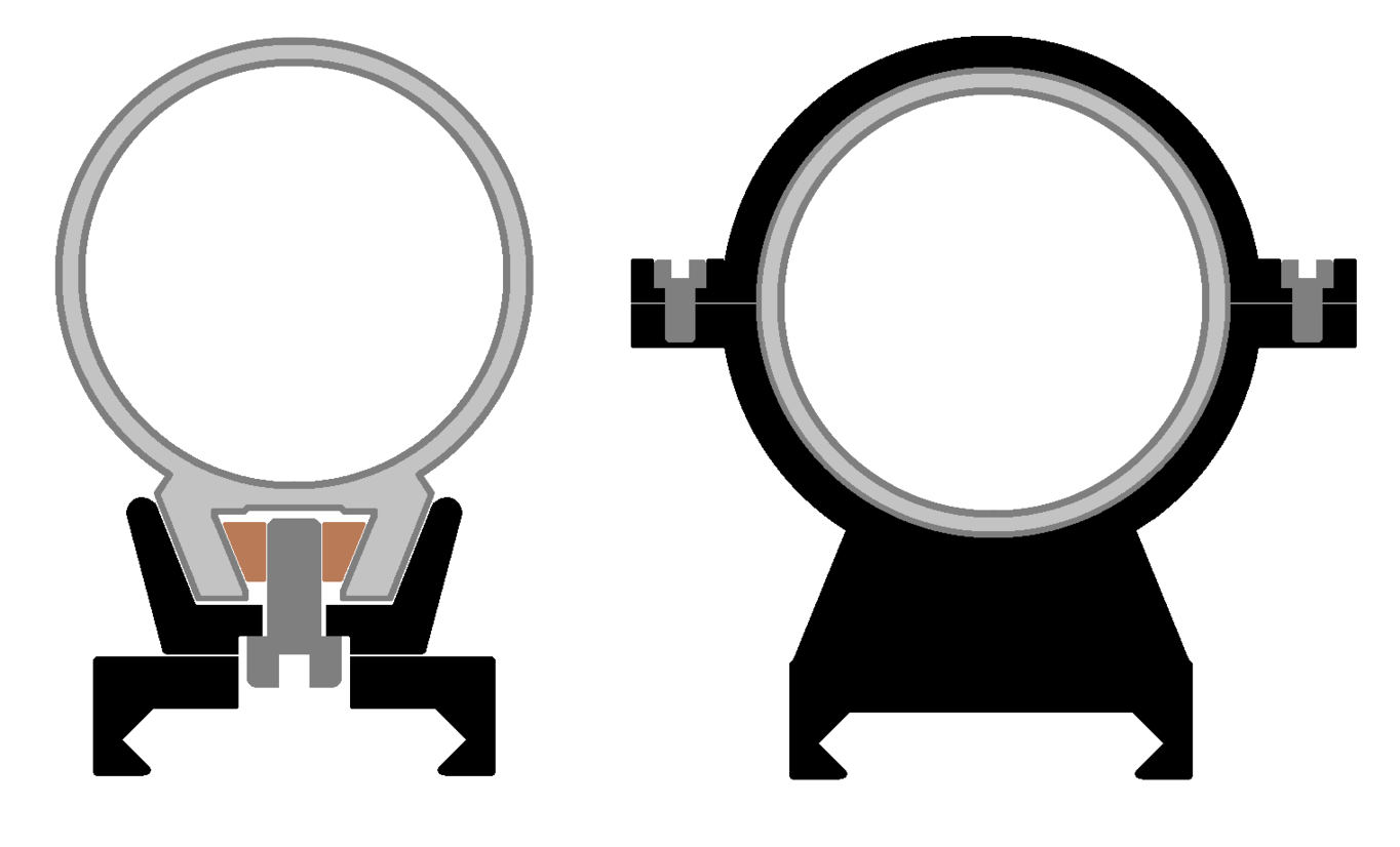 Zeiss rail (left) and ring mount (right), both with picatinny receiver interface. Drawings are not to scale.